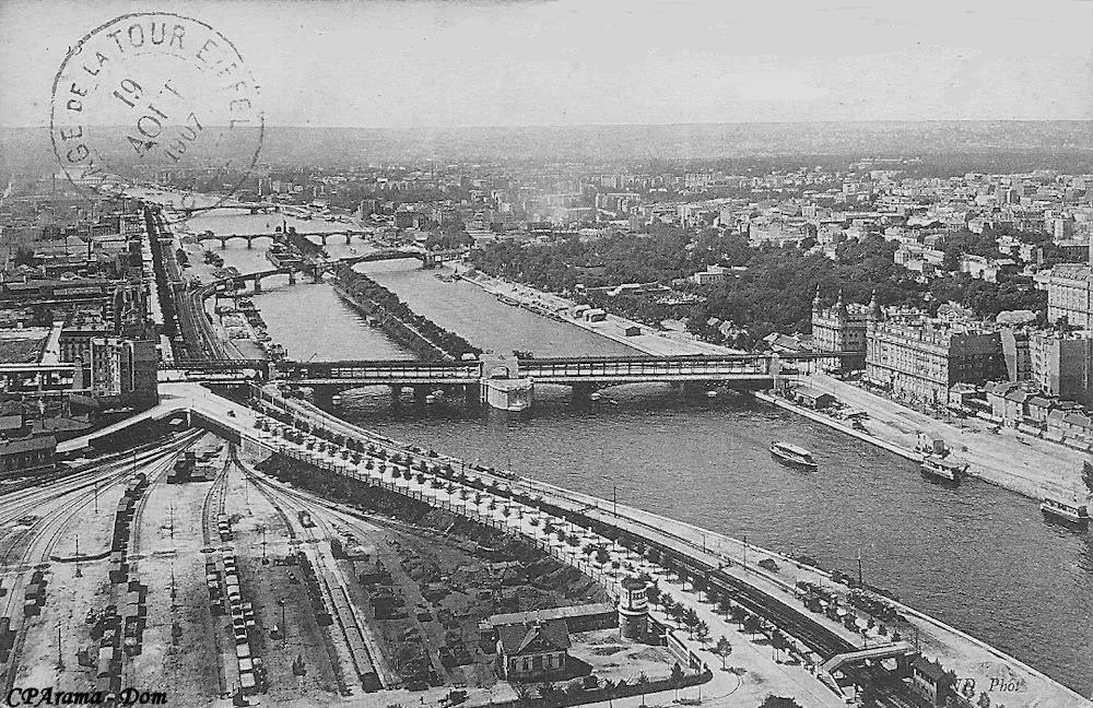 Ile aux Cygnes - Postkarte (August 1907)